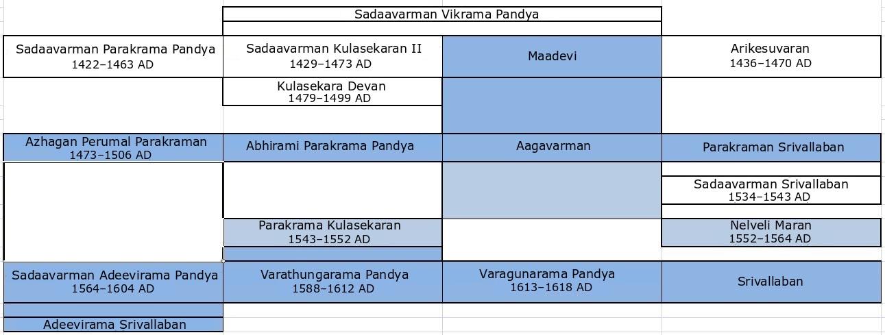 Geneological Table Of Tenkasi Pandyas.